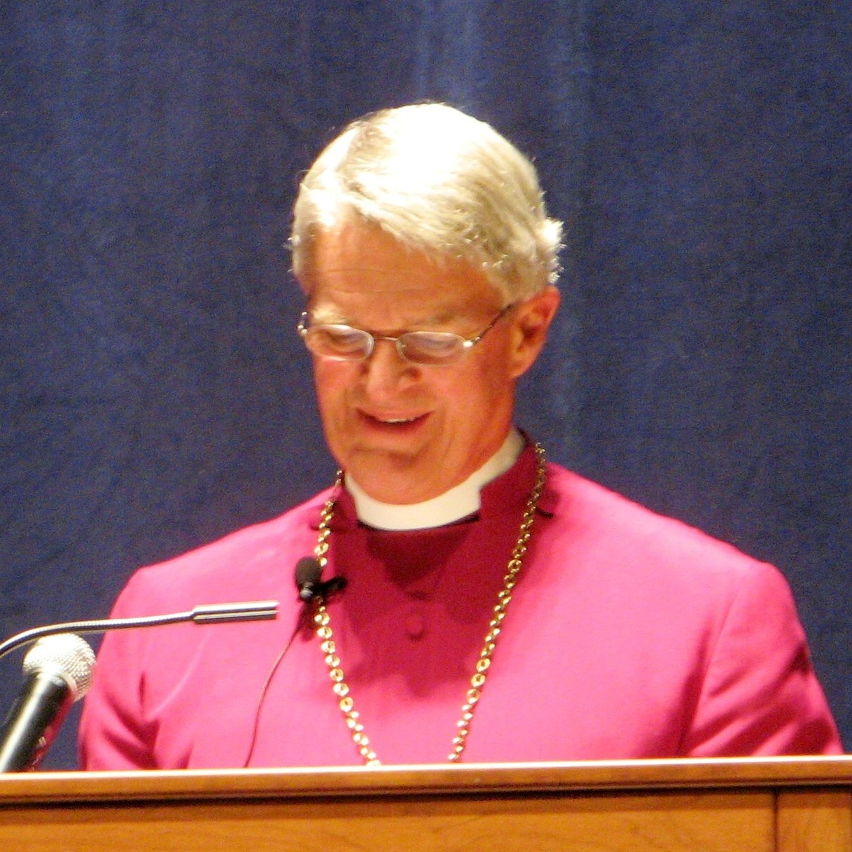 The Most Reverend Frank Griswold, former Presiding Bishop and Primate of the Episcopal Church, preaching on December 10, 2007, at St. Mary's Abbey, Morristown, New Jersey, United States